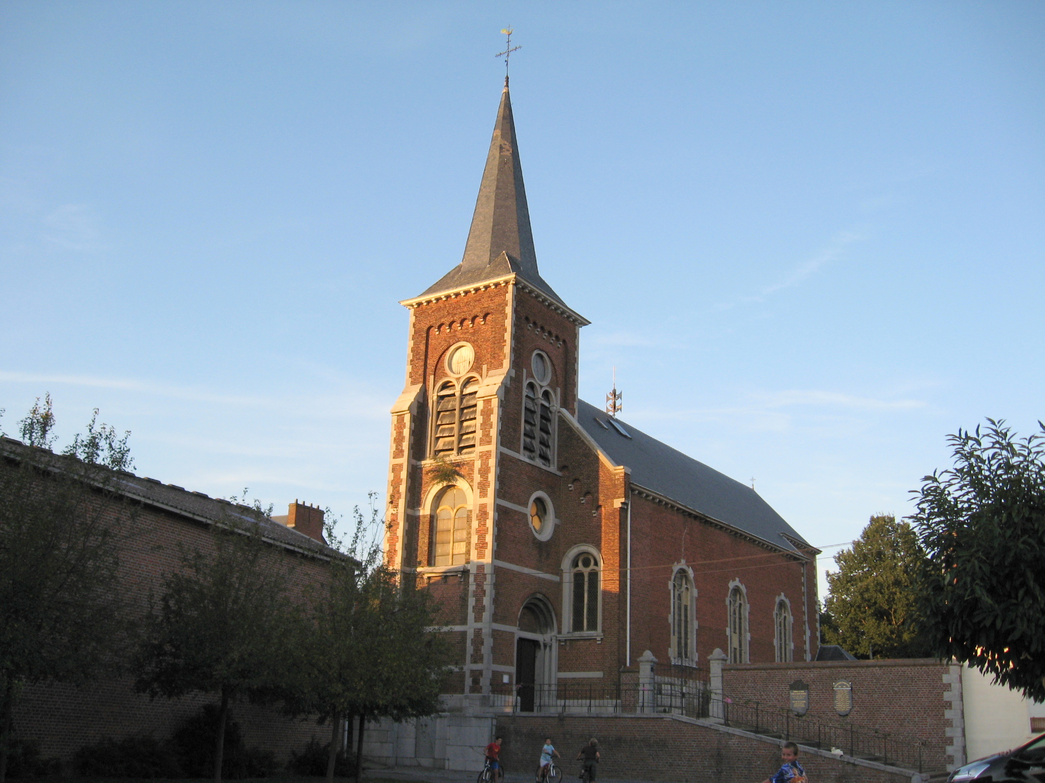 Church of Our Lady in Viemme, Faimes, Liège, Belgium